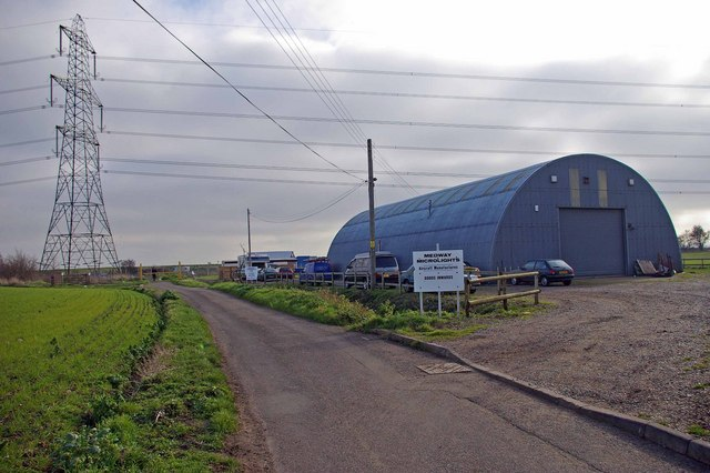 Medway Microlights This is the construction hangar of Medway Microlights the longest established manufacturer of Microlight Aircraft in the UK.